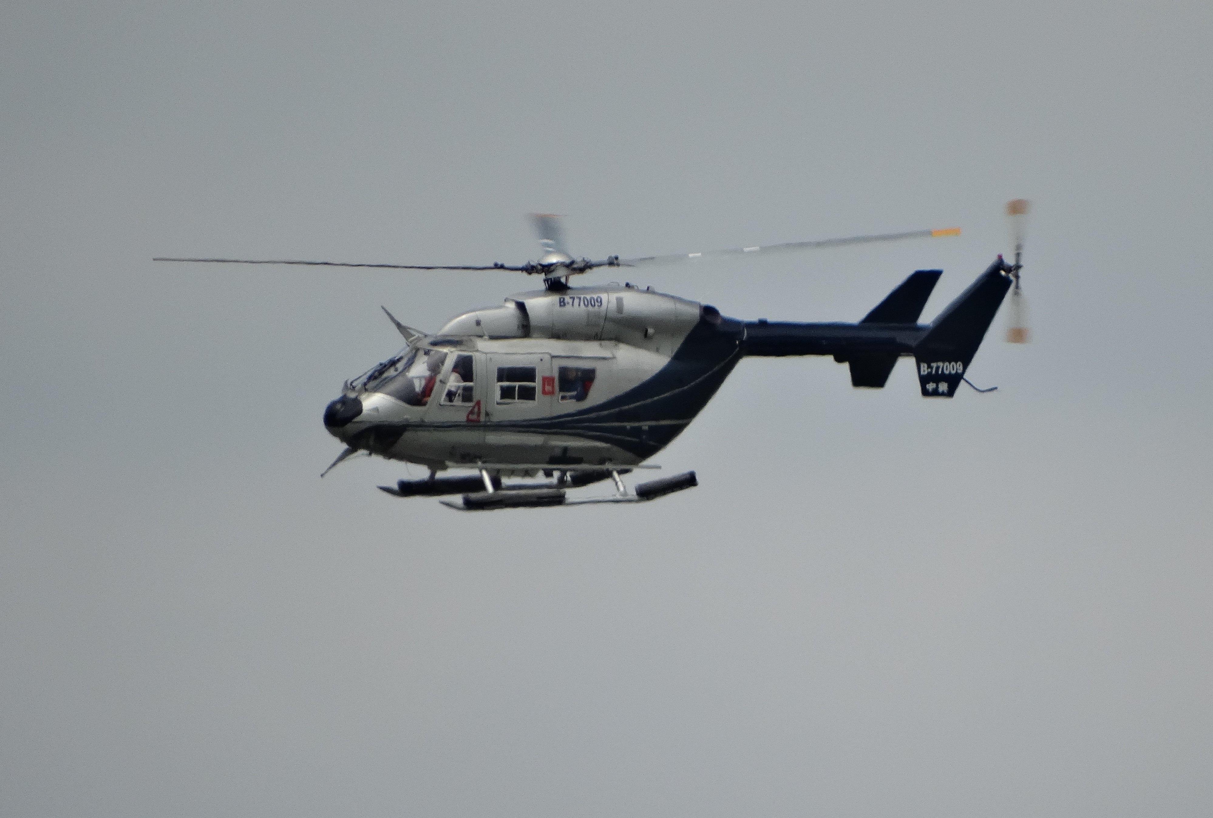 Sunrise Airlines BK117 B-77009 IN TSA/RCSS.